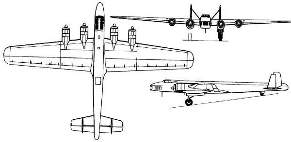 Dornier Do 19 Technical Spec Diagram.